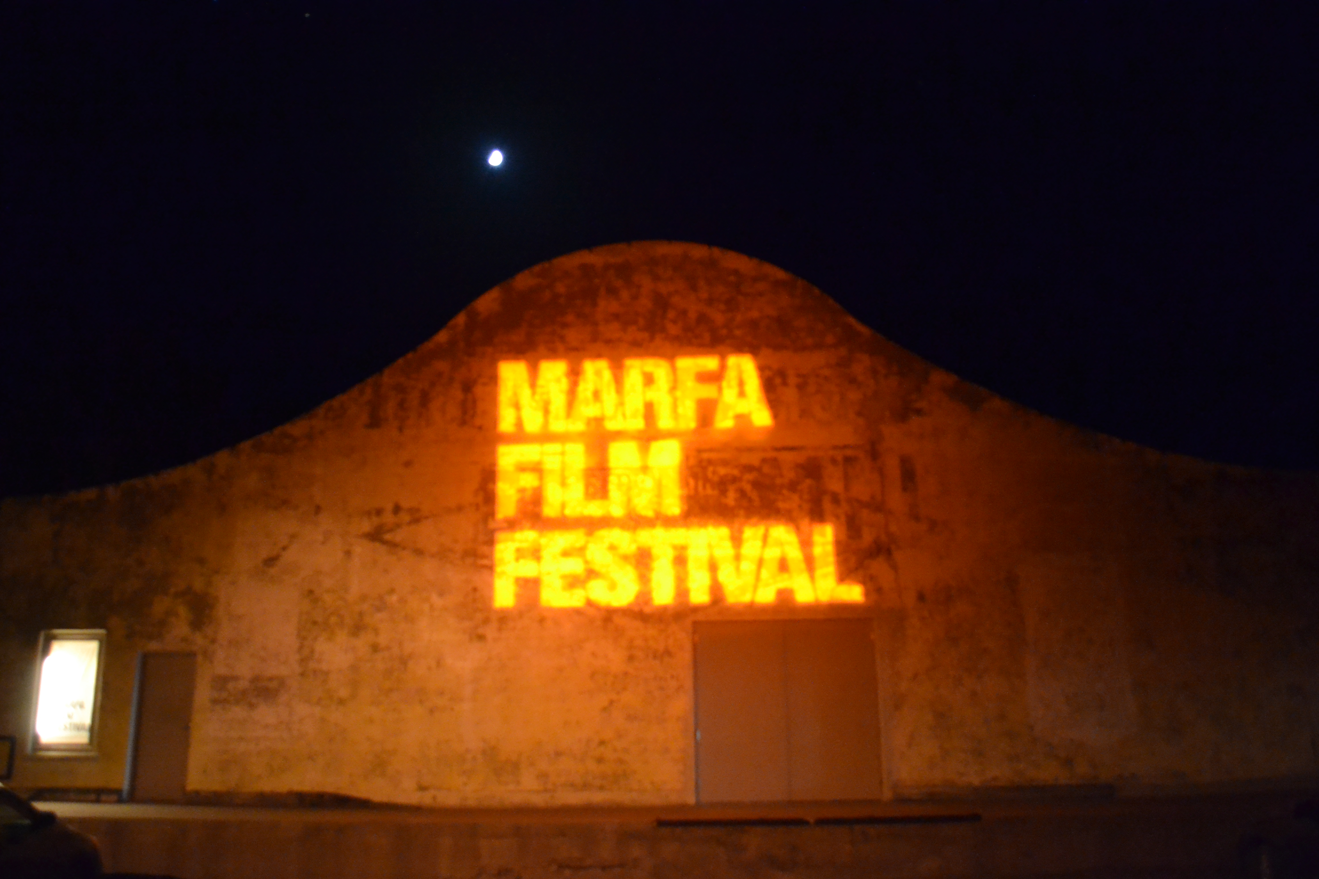 live projection on marfa film festival theater venue